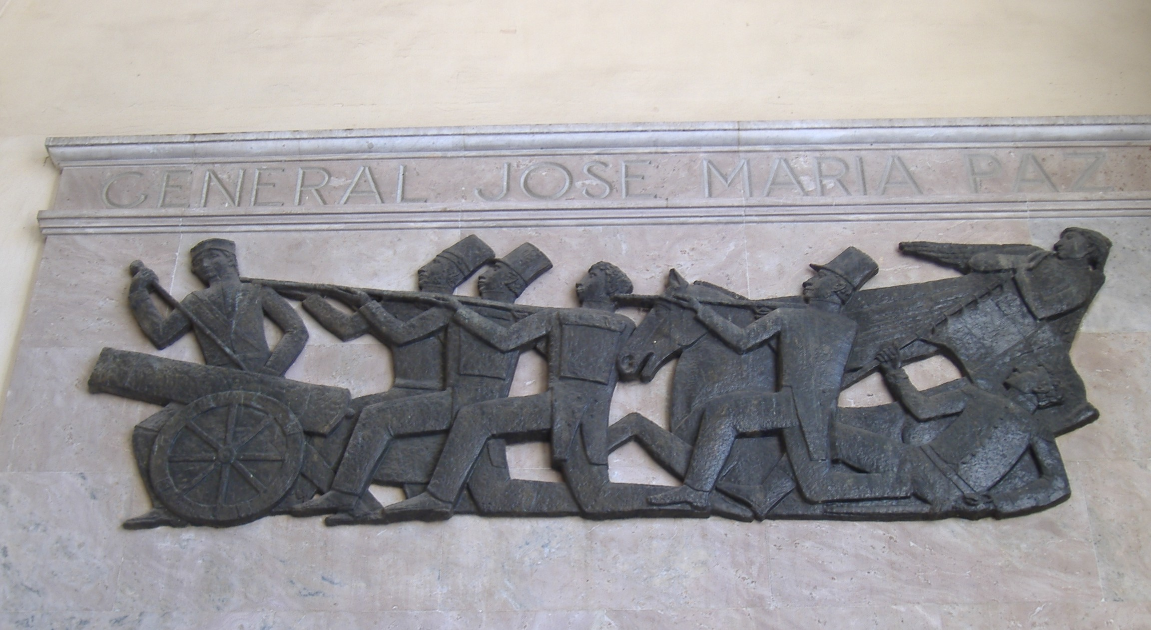 The tomb of Brigadier General José María Paz at the entrance of the cathedral of Córdoba, Argentina.